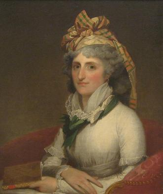 Photo of a portrait by Gilbert Stuart of Mary Willing Clymer. Painted in 1797, it hangs in Independence National Historical Park in Philadelphia.